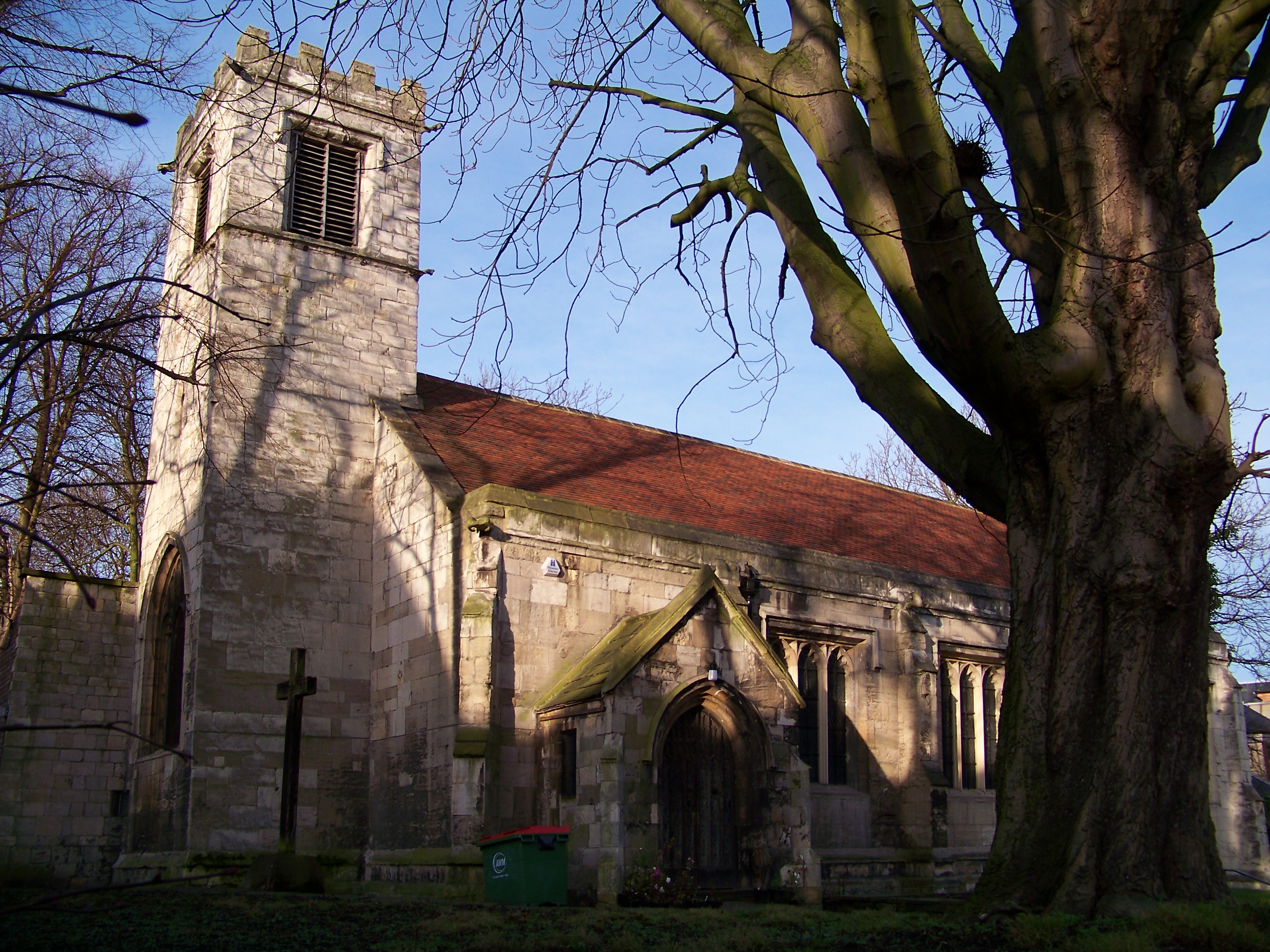 St. Cuthbert Church, Peasholme Green, York, England a grade I listed building constructed in the 15th century.